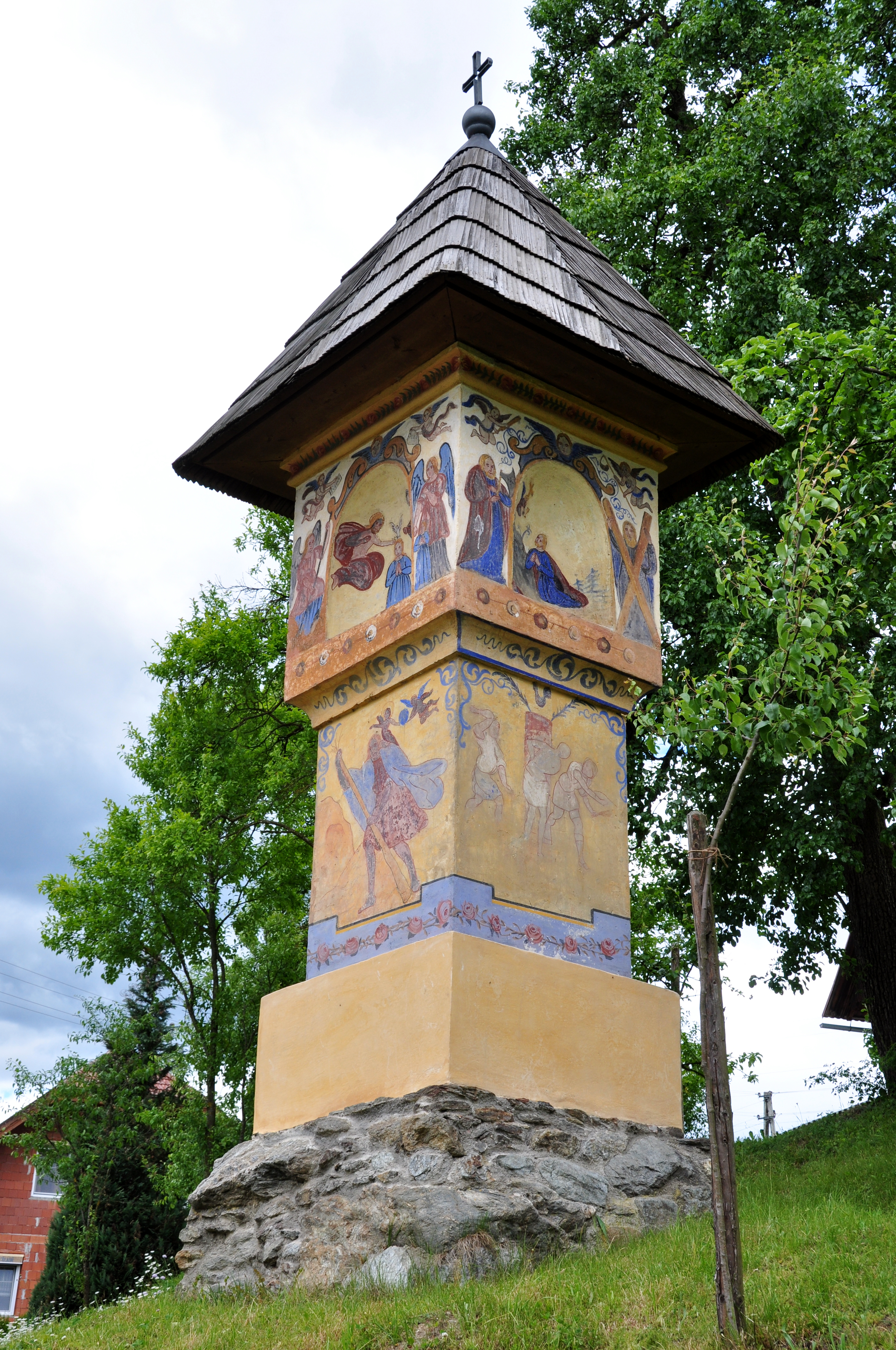 Alcove wayside shrine "POLZERKREUZ" from the year 1680 at Leisbach in the municipality Keutschach am See, district Klagenfurt-Land, Carinthia, Austria